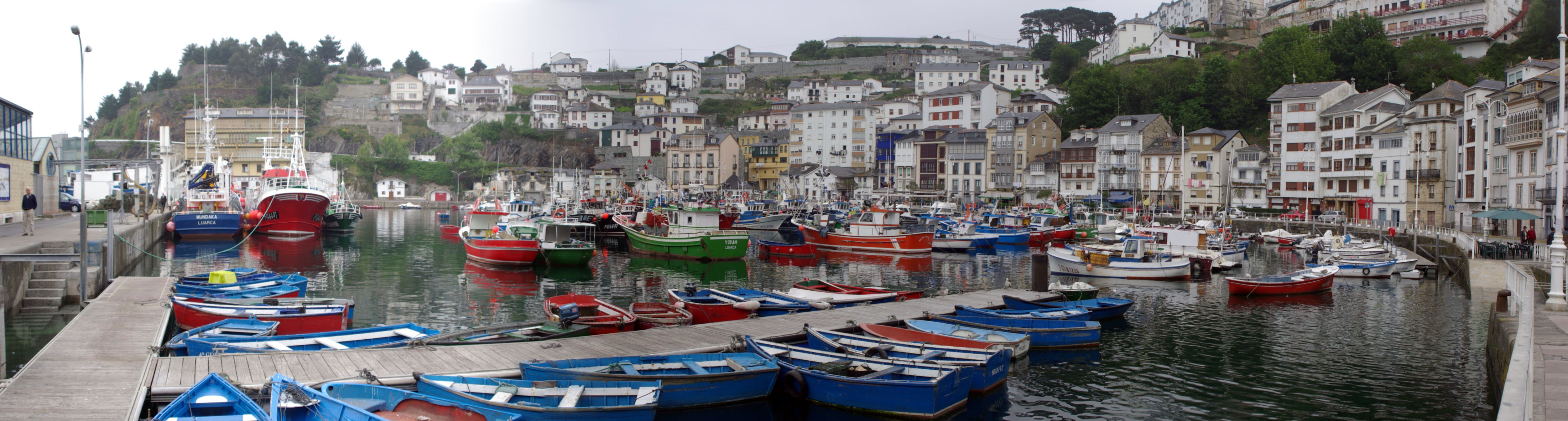 Port of Luarca, Asturias (Spain)